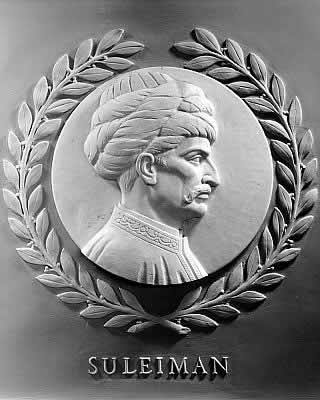 Suleiman marble bas-relief, one of 23 reliefs of great historical lawgivers in the chamber of the U.S. House of Representatives in the United States Capitol. Sculpted byJoseph Kiselewski in 1950. Diameter 28 inches.